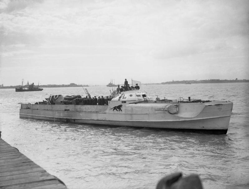 The German Schnellboot ("E-boat") S 204 flying a white flag of surrender at the coastal forces base HMS Beehive, Felixstowe, Suffolk (UK), on 13 May 1945. The two German E-Boats S 204 and S 205 from the 4th Schnellboot-Flotilla were escorted in by ten British MTBs. On board of S 205 was Rear Admiral Erich Breuning, who had been in charge of E-Boat operations and who signed the instrument of surrender. Note the black panther painted on the side of S 204 which had on board KKpt Kurt Fimmen (CO 4th Schnellboot-Flotilla) and KptLt Bernd Rebensburg (Ia Op/Operations-Officer of the Staff of Führer der Schnellboote/FdS).